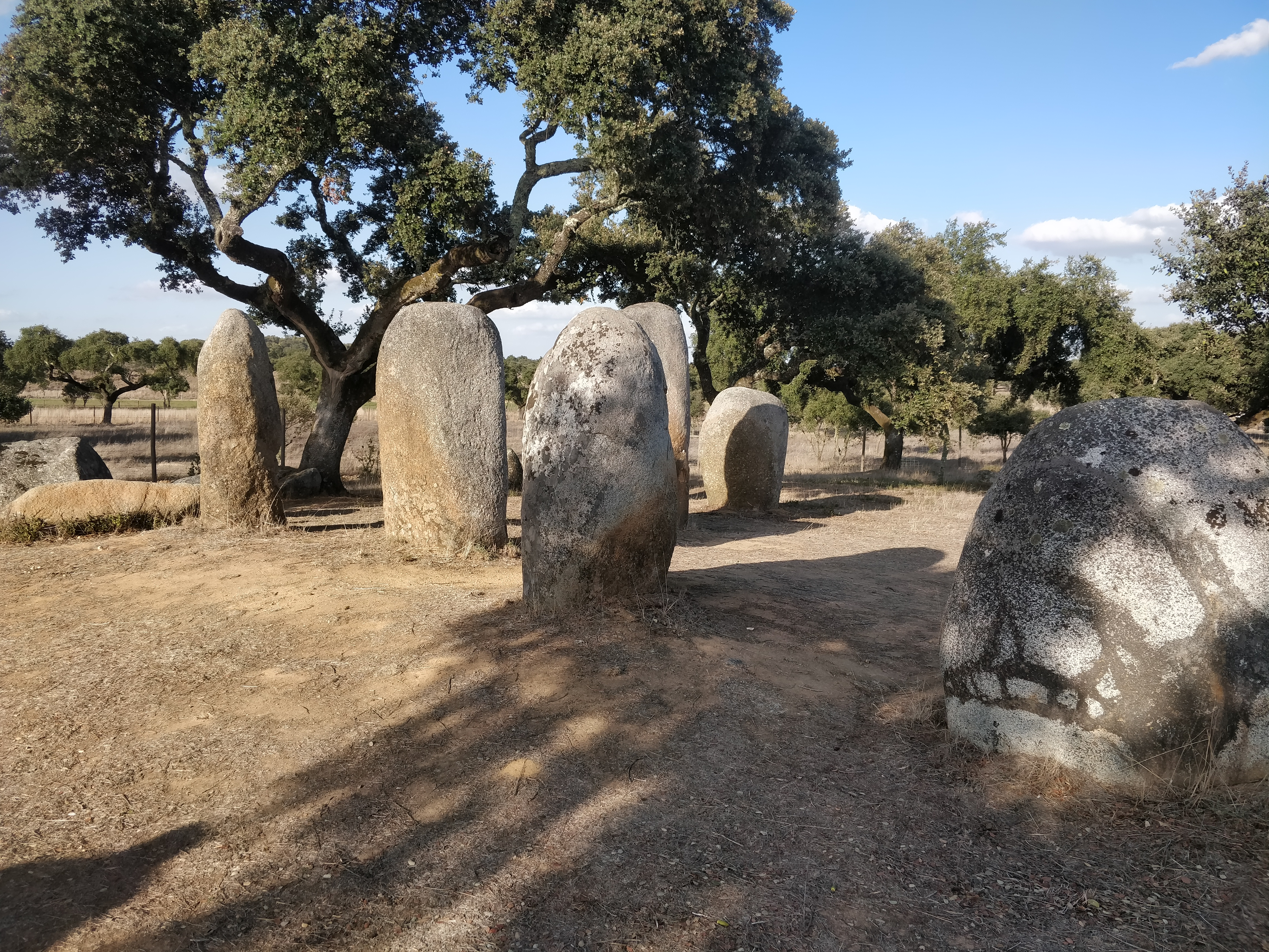 The Cromlech of Vale Maria do Meio is a megalithic stone circle in Evora District, Portugal